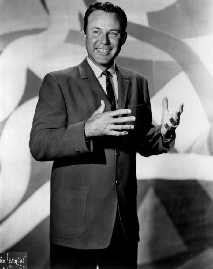 Publicity photo of singer Jim Reeves.